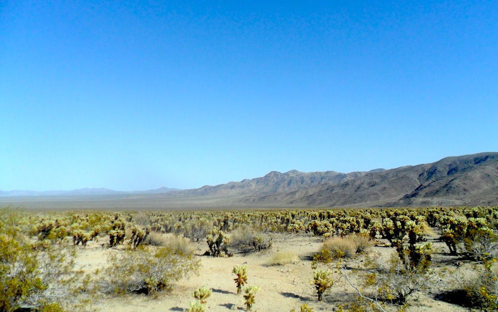 The Hexie Mountains in the southern Mojave Desert, Southern California. With bajada or wadi (foreground), and alluvial fans (in distance), extending into the valley plain. Seen from the Cholla Cactus Garden in Joshua Tree National Park.